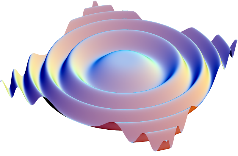 A 3D rendering of the surface given by: z = cos ⁡ ( x 2 + y 2 ) {\displaystyle z=\cos \left(x^{2}+y^{2}\right)}